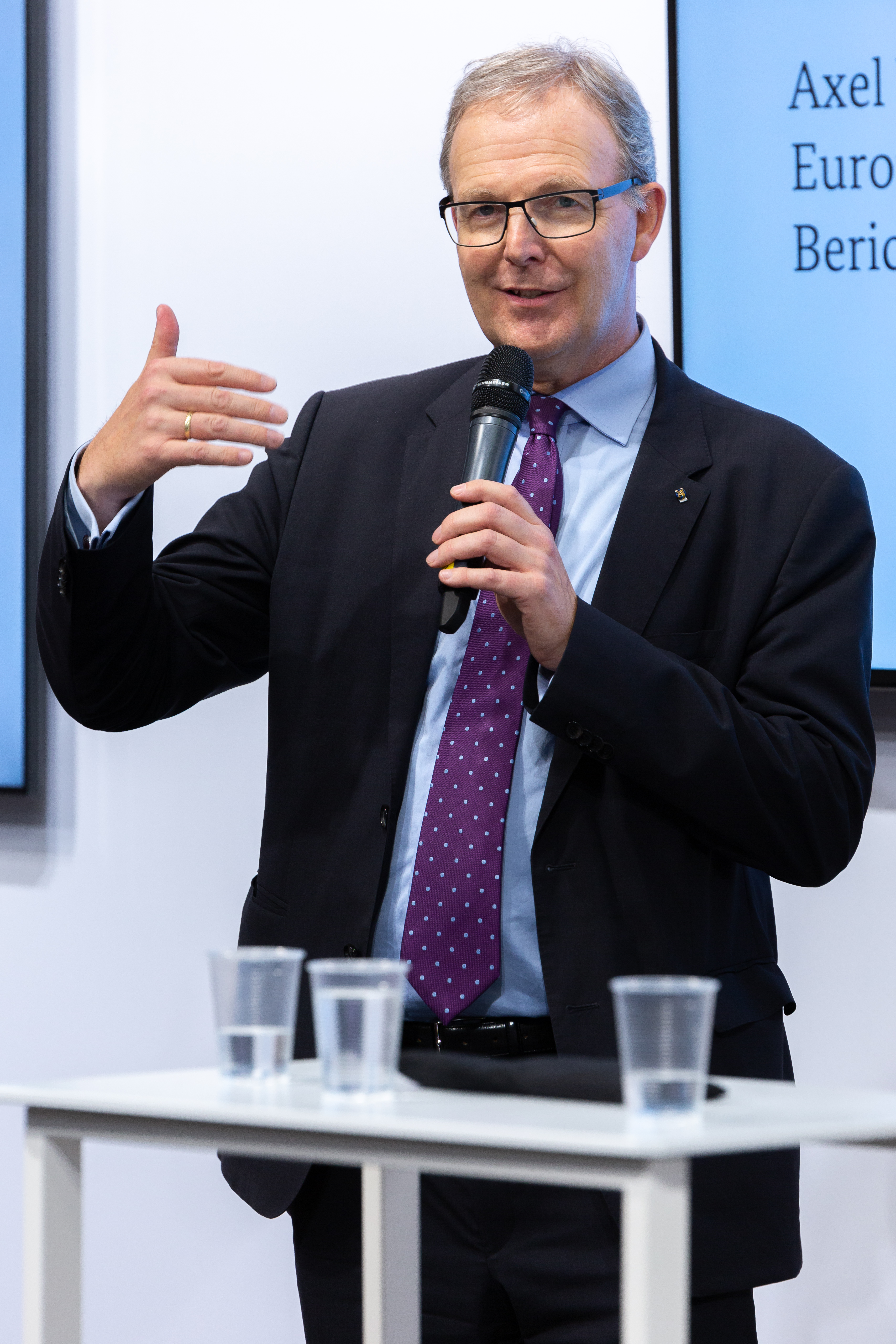 Axel Voss at the Frankfurter Buchmesse 2018